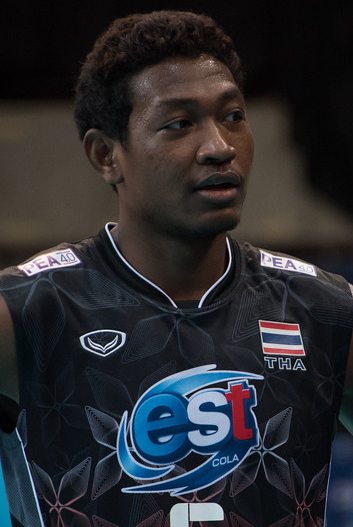 Kissada Nilsawai in 2018 FIVB Volleyball Men's World Championship qualification (AVC)